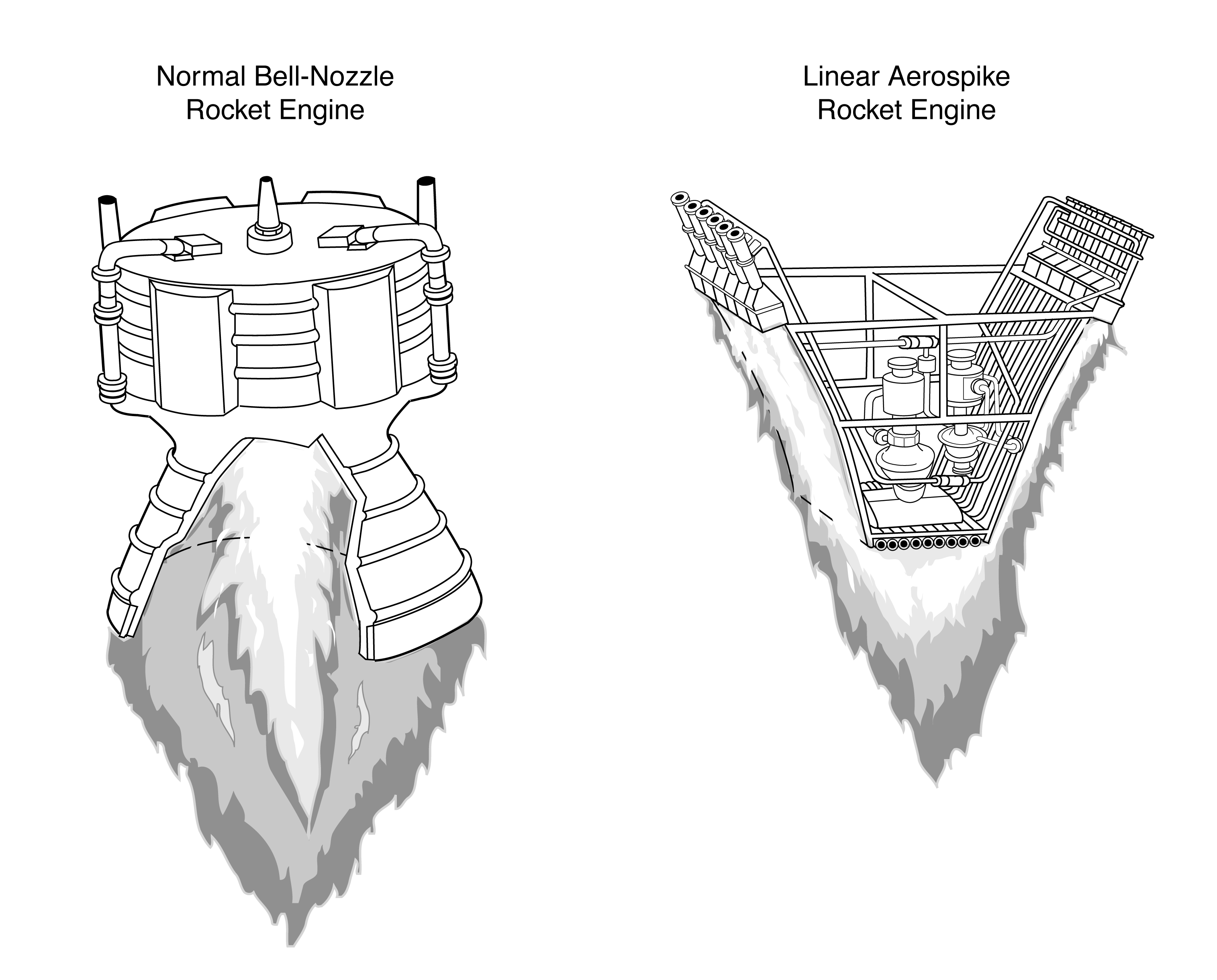 X-33 engine comparison line art